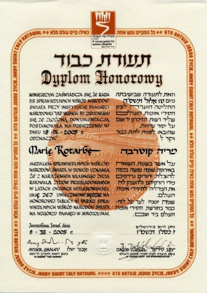 Scanned image of Maria Kotarba's Righteous Among the Nations diploma awarded by Yad Vashem, Jerusalem, 2005.